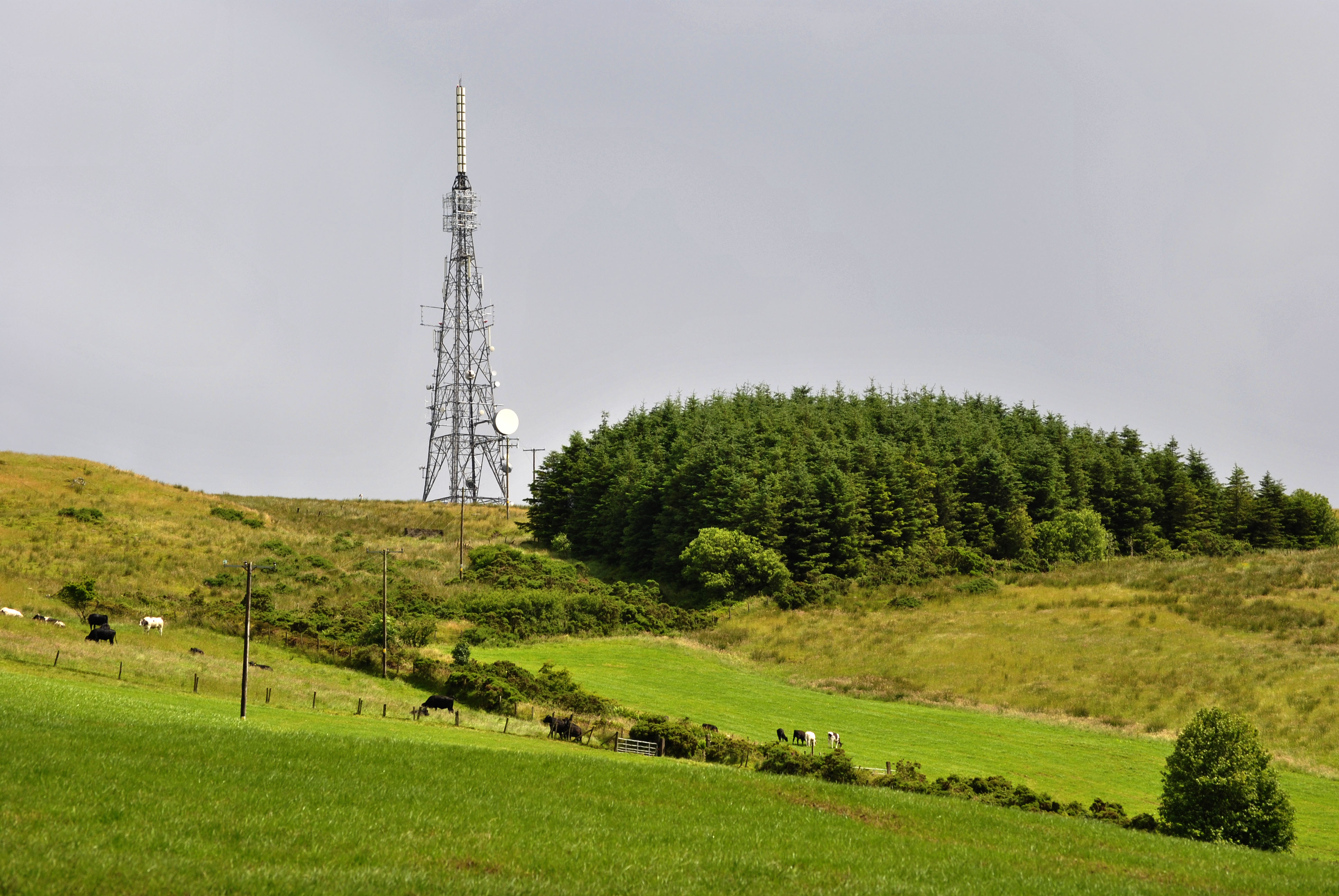 Holywell Hill County Donegal, Ireland